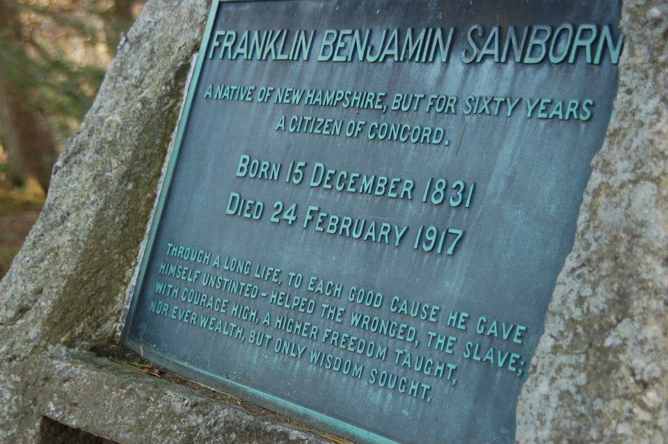 Tombstone of Franklin Benjamin Sanborn in Sleepy Hollow Cemetery, Concord, Massachusetts